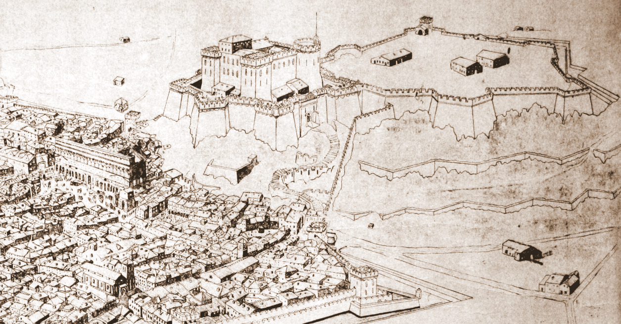 A view of the Saint Eutrope's hille drawn in the XVIIth century.